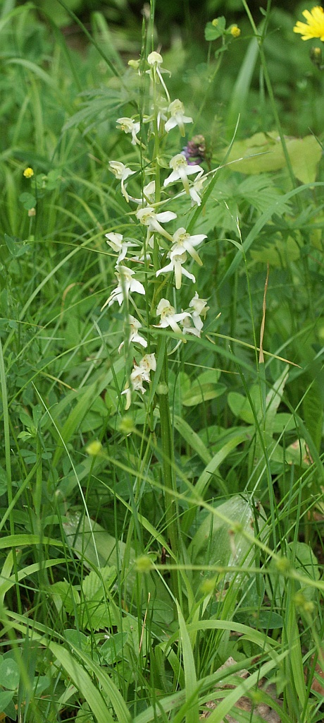 Platanthera chlorantha